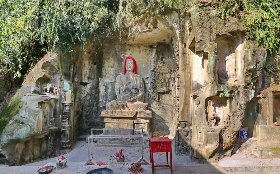 Nengren temple cliff sculpture